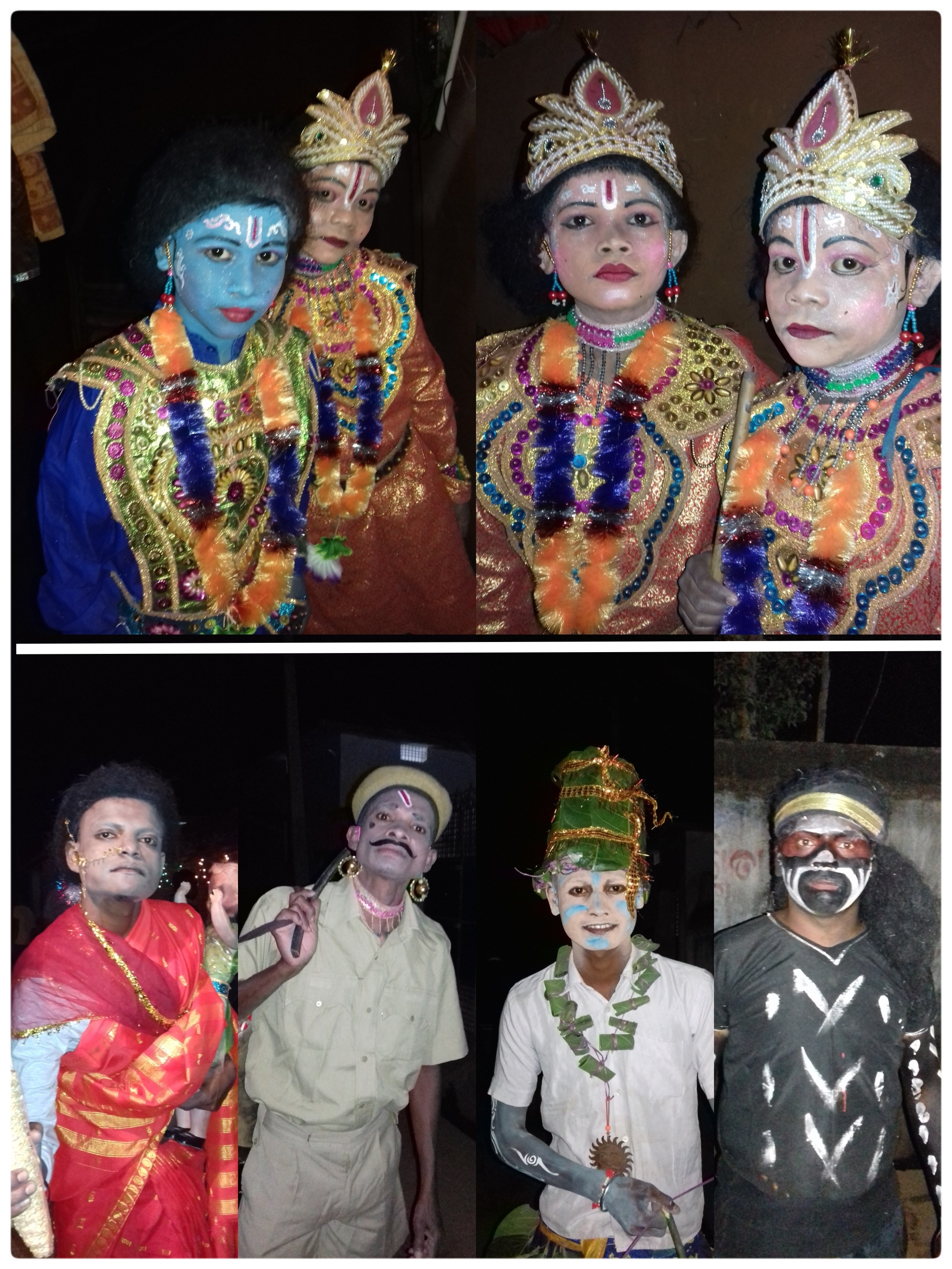 Shri Shri Madhumangal Raas Leela 2019